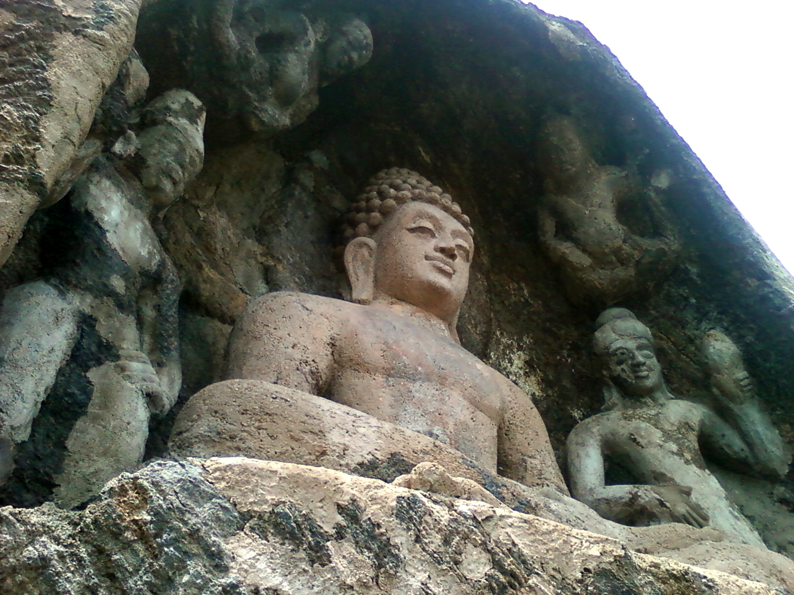 A rock cut image of Buddha at Bojjannakonda Cave Monastic ruins site near Anakapalle in Visakhapatnam district, Andhra Pradesh, India